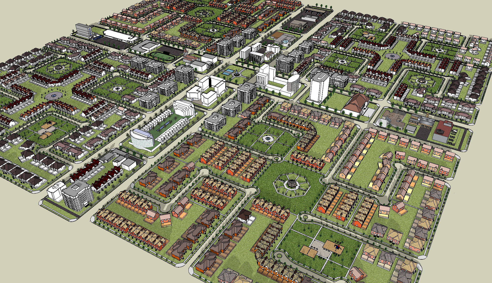 A 3D model of a fused grid district using sketchup